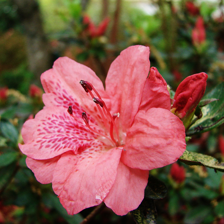 An azalea is a pretty pink flower